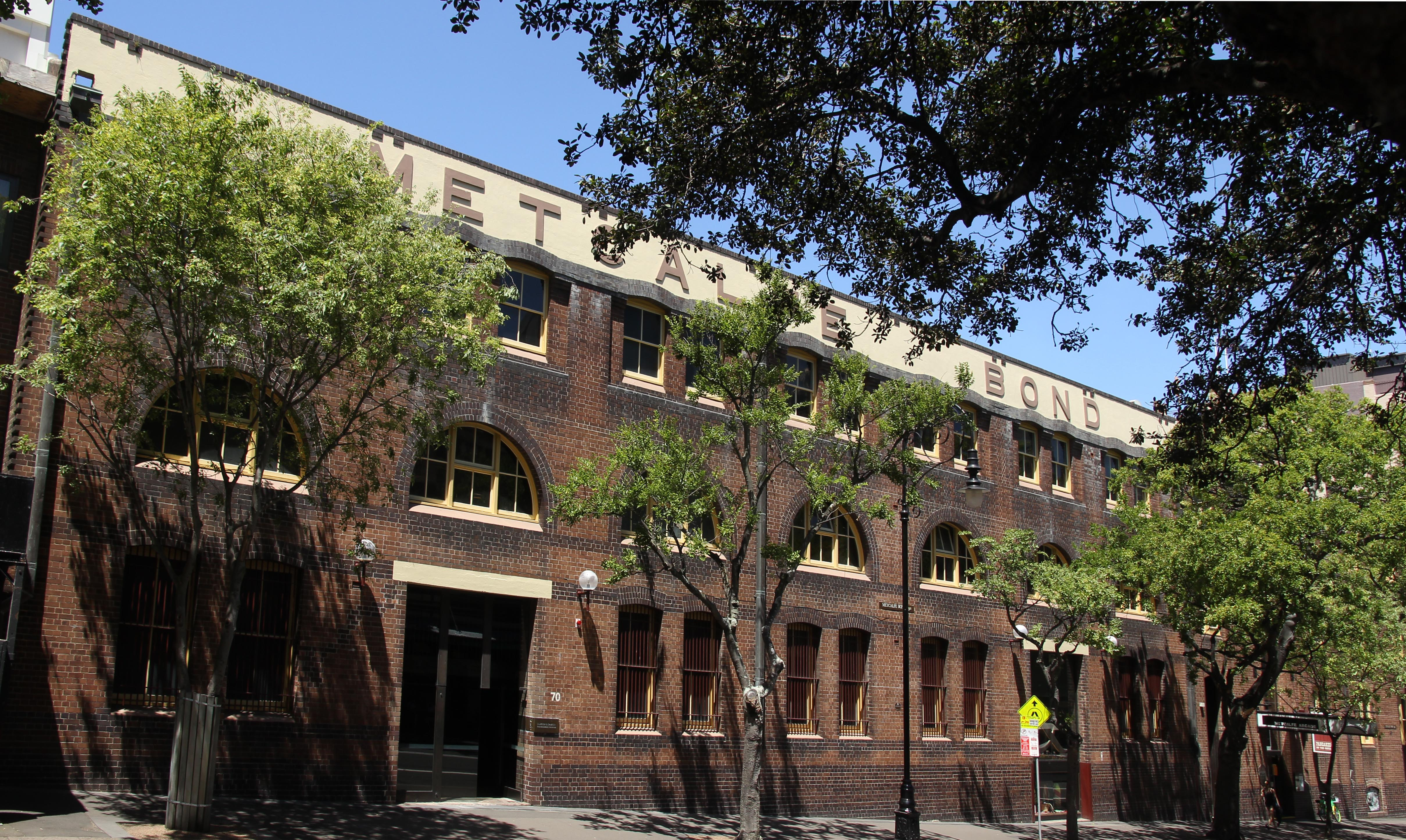 Metcalfe Bond Stores, located onGeorge Street, The Rocks in the City of Sydney, New South Wales, Australia